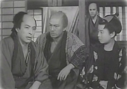 From left to right:Kōkichi Takada, Kodayu Ichikawa, Shunji Sakai, and Hibari Misora in 1950 Japanese movie Tonbo kaeri dōchū (Tonbo kaeri dōchū).